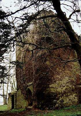 Photo of Kilmahew Castle ruin